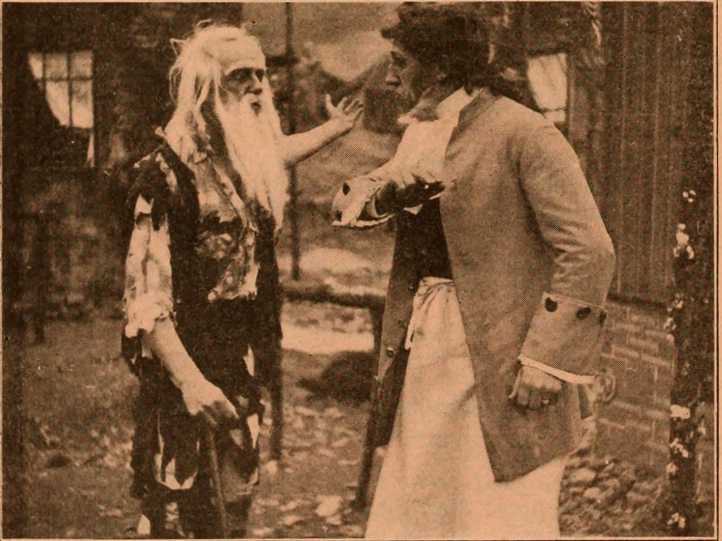 A film still showing the aged Rip Van Winkle from the Thanhouser Company's film "Rip Van Winkle".